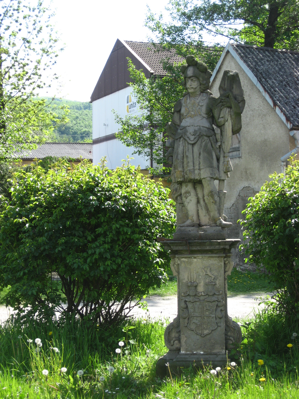 Statue of St Florian in Bílá Voda, Jeseník District, Czech Republic